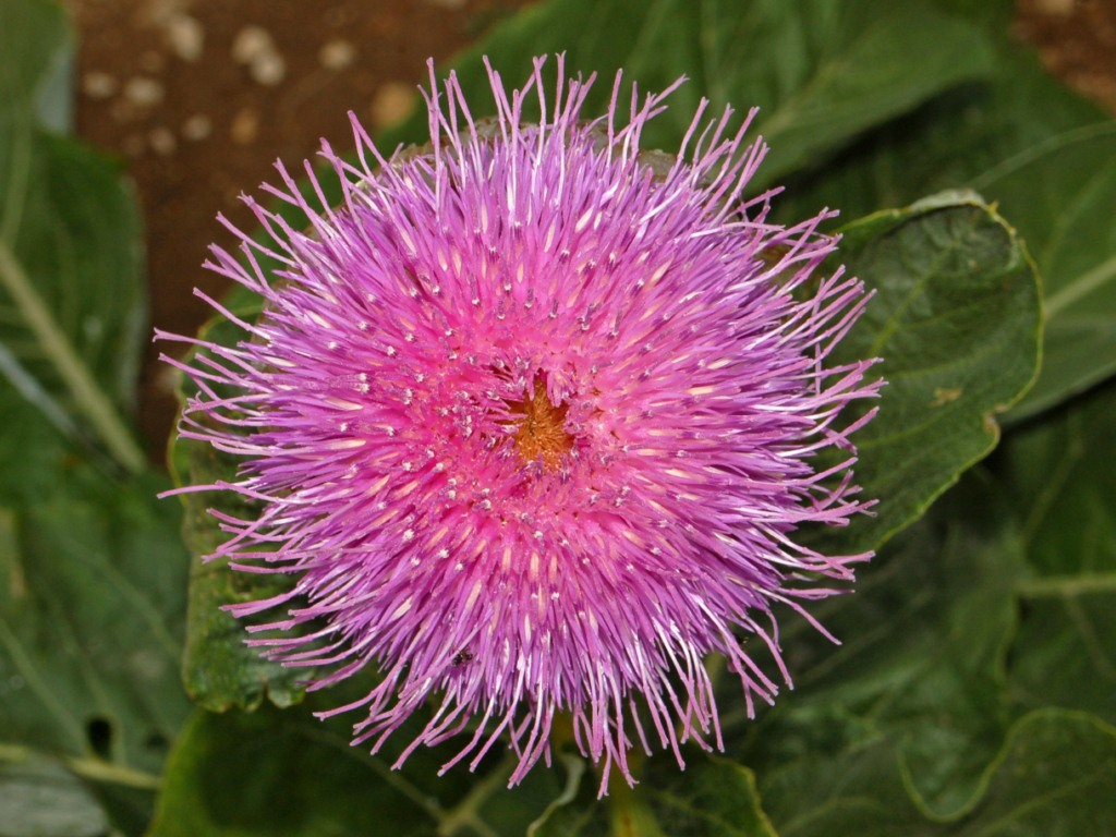 Rhaponticum heleniifolium subsp. heleniifolium - Col du Lautaret, France